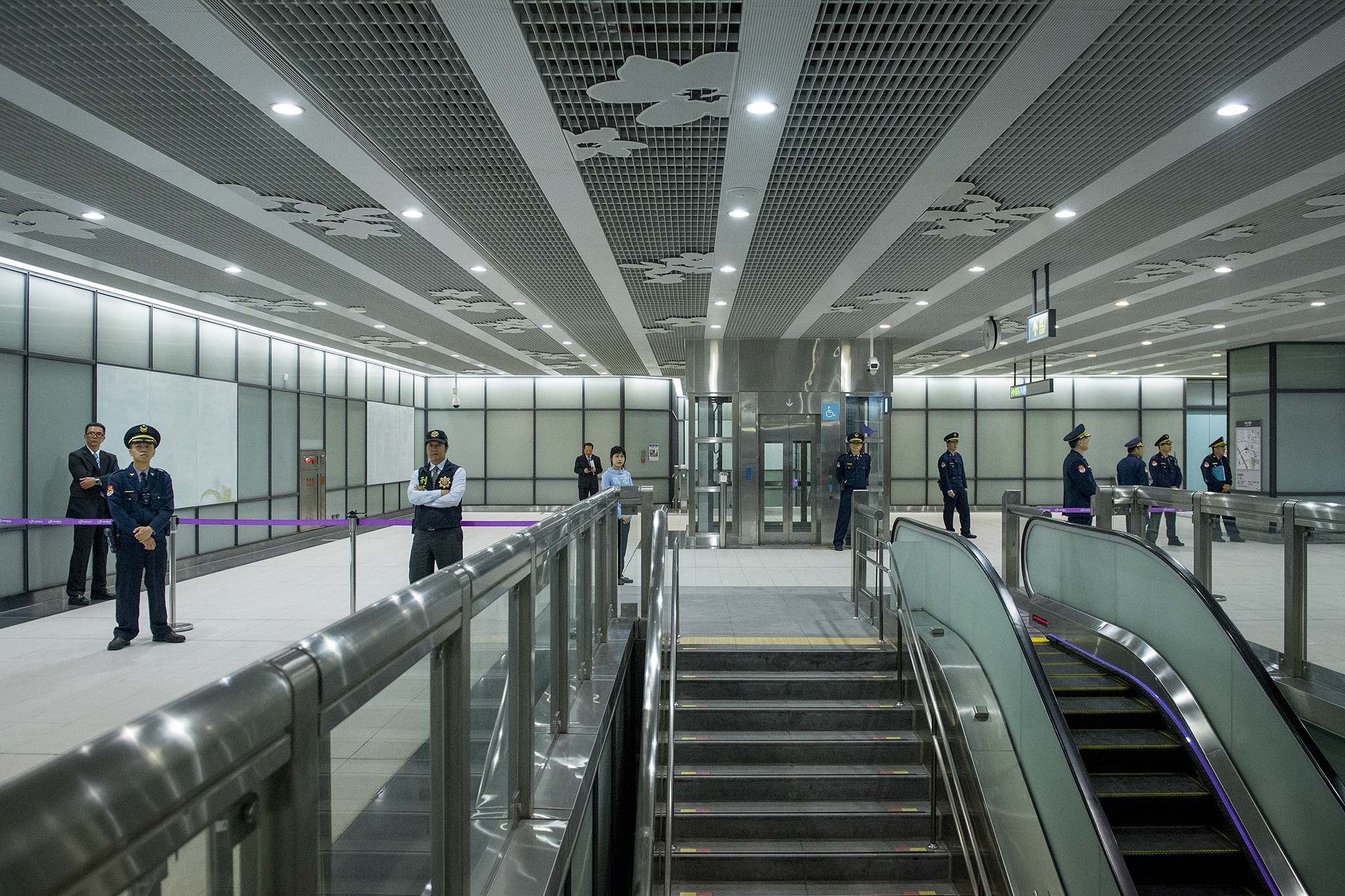 授權方式及範圍：中華民國總統府│政府網站資料開放宣告 Authorization Method & Scope: Office of the President, Republic of China (Taiwan) | Government Website Open Information Announcement